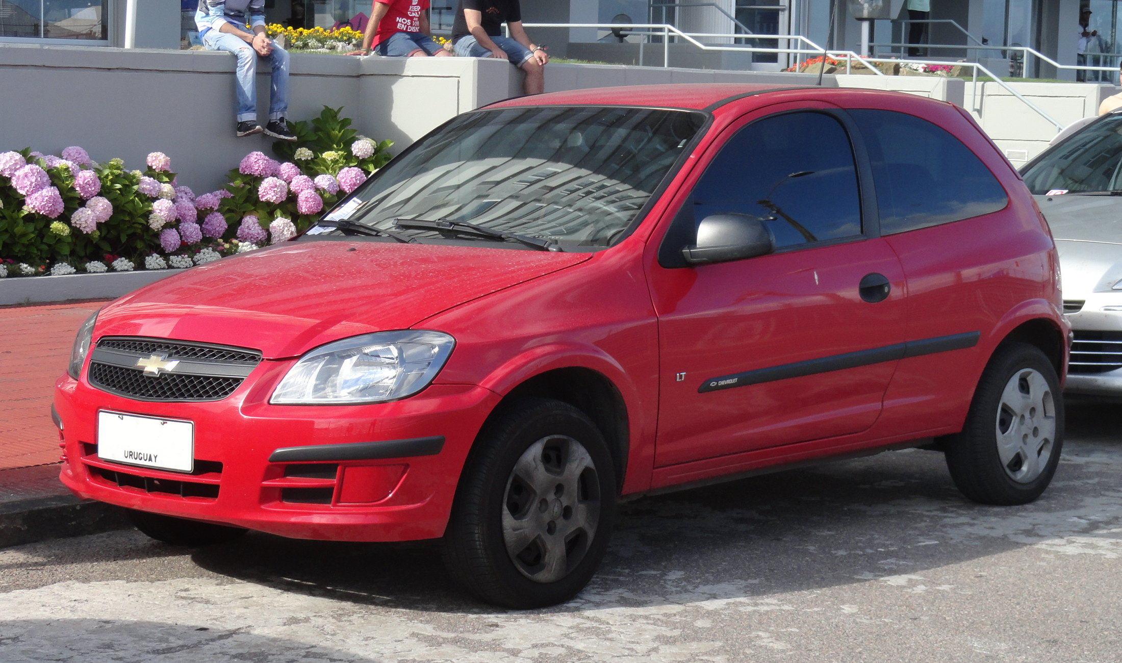 Chevrolet Celta 2011 photographed in Punta del Este (Uruguay)